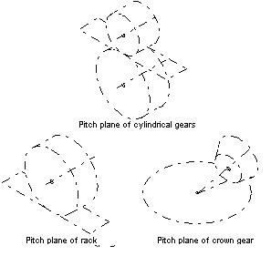 Pitch plane